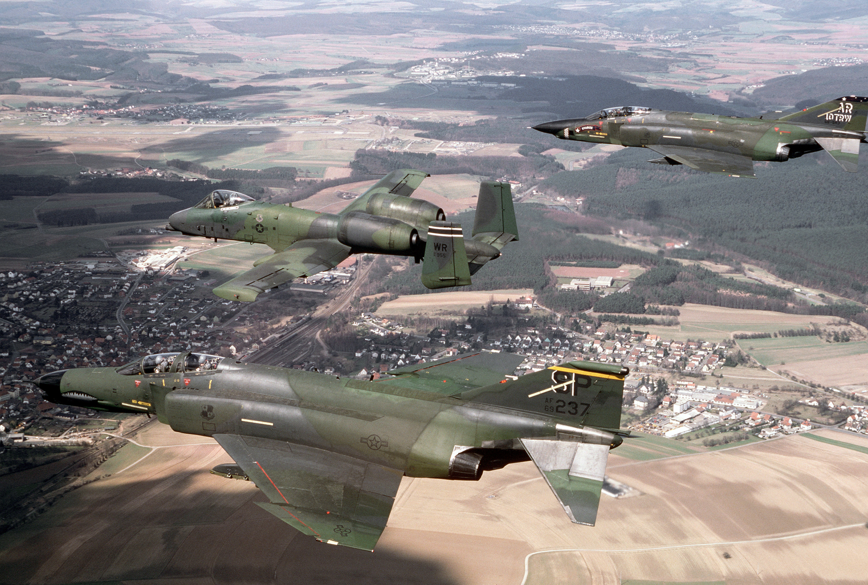 Three aircraft from the U.S. Air Force in Europe in flight on 6 April 1987 near Ramstein Air Base, Germany. These aircraft were part of a larger, 15-aircraft formation taking part in an aerial review for departing General Charles L. Donnelly Jr., commander in chief, U.S. Air Force Europe and commander, Allied Air Forces Central Europe. The visible aircraft are (front to back): McDonnell Douglas F-4G Phantom II (s/n 69-0237), 81st Tactical Fighter Squadron, 52nd Tactical Fighter Wing, Spangdahlem Air Base, Germany; Fairchild Republic A-10A Thunderbolt II (s/n 81-0995), 510th TFS, 81st TFW, RAF Bentwaters, Suffolk (UK); McDonnell Douglas RF-4C-39-MC Phantom II (s/n 68-0583), 1st Tactical Reconnaissance Squadron, 10th Tactical Reconnaissance Wing, RAF Alconbury, Cambridgeshire (UK).